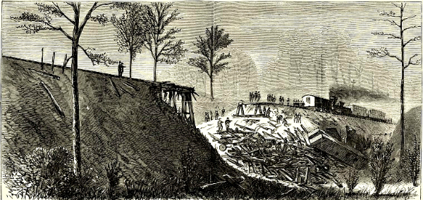 An illustration of the February 25,1870 accident at Buckner's Trestle on the Mississippi Central Railroad south of Oxford, Mississippi that killed 20 people. This illustration first appeared in the March 19, 1870 edition of Harper's Weekly.